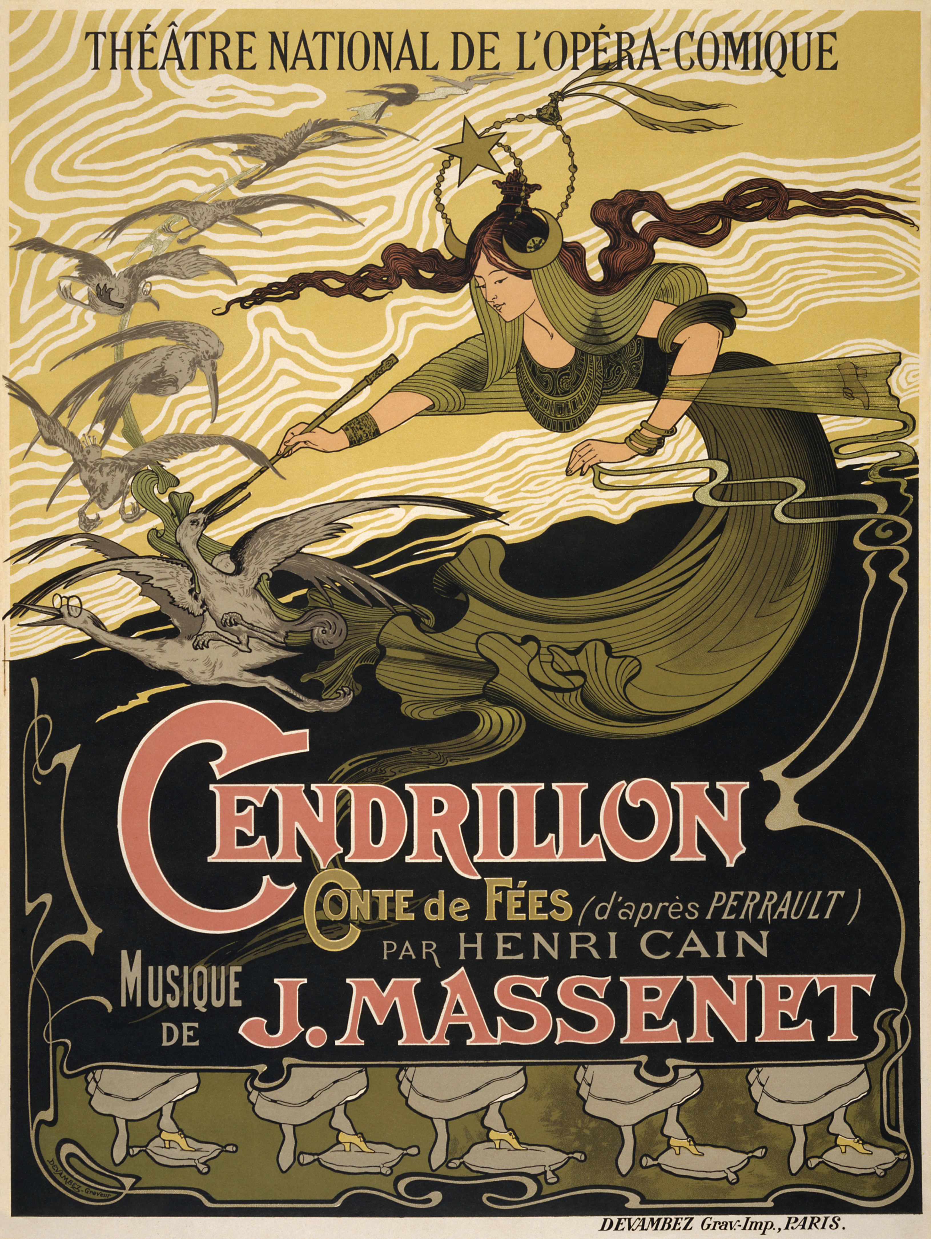 Émile Bertrand's poster for Jules Massenet's Cendrillon, advertising the première performance at the Théâtre National de l'Opéra-Comique, Paris.